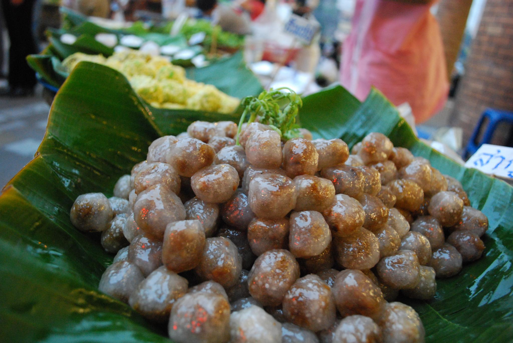 Sakhu sai mu (สาคูไส้หมู; literally "sago balls filled with pork"), a Thai sweet food made from sago palm seeds